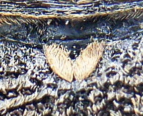 Monochamus galloprovincialis Schildchen als bestimmungsrelevantes Detail